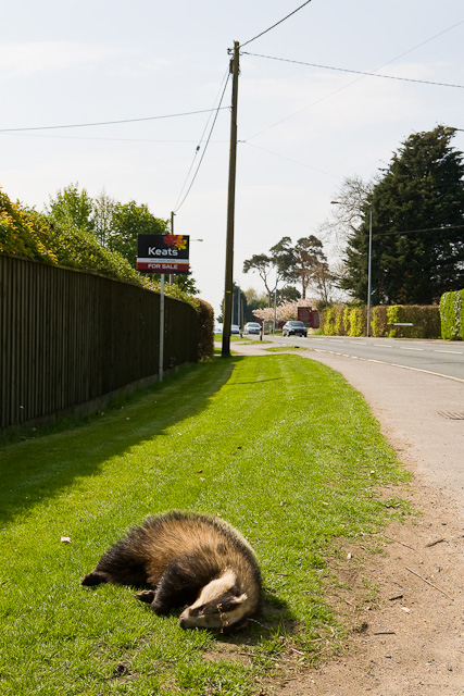 Badger's End on the A31 at Four Marks I suppose this little badger failed to make it across the very busy main road. I saw no sign of injury but hopefully he was killed outright rather than suffering a lingering death through the night.